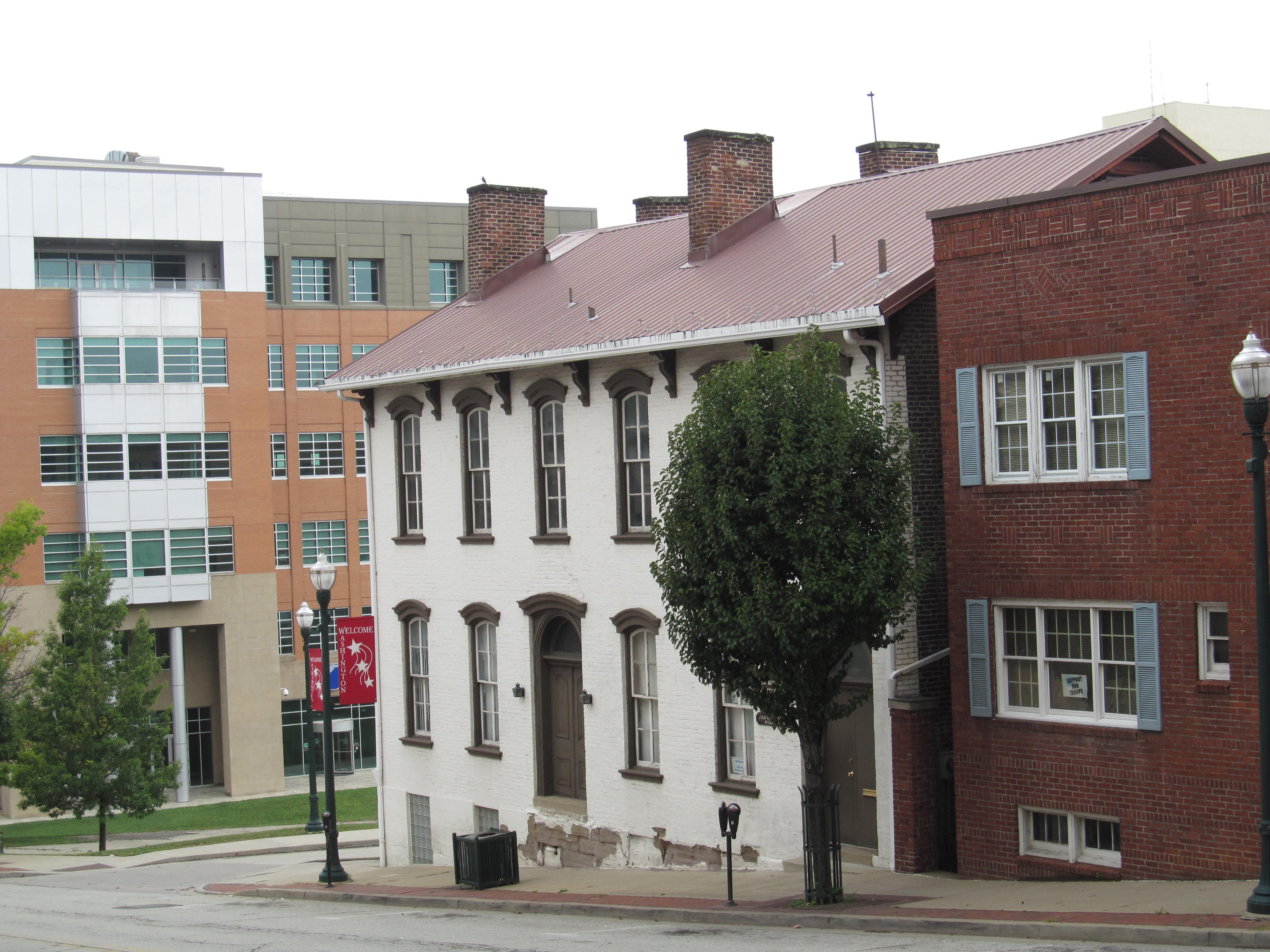 Washington, Pennsylvania. The Crossroads Center, a Millcraft Industries property, is on the left.